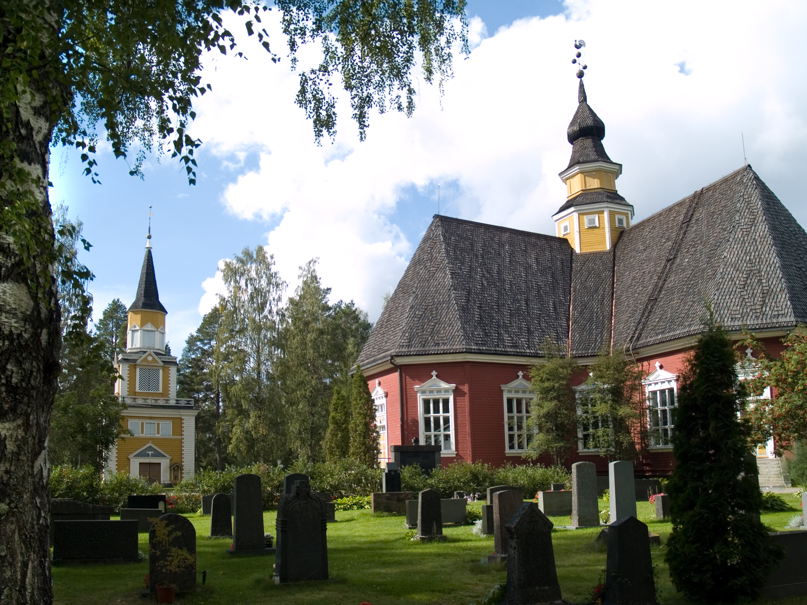 Old church in Kuortane, Finland, August 2012.